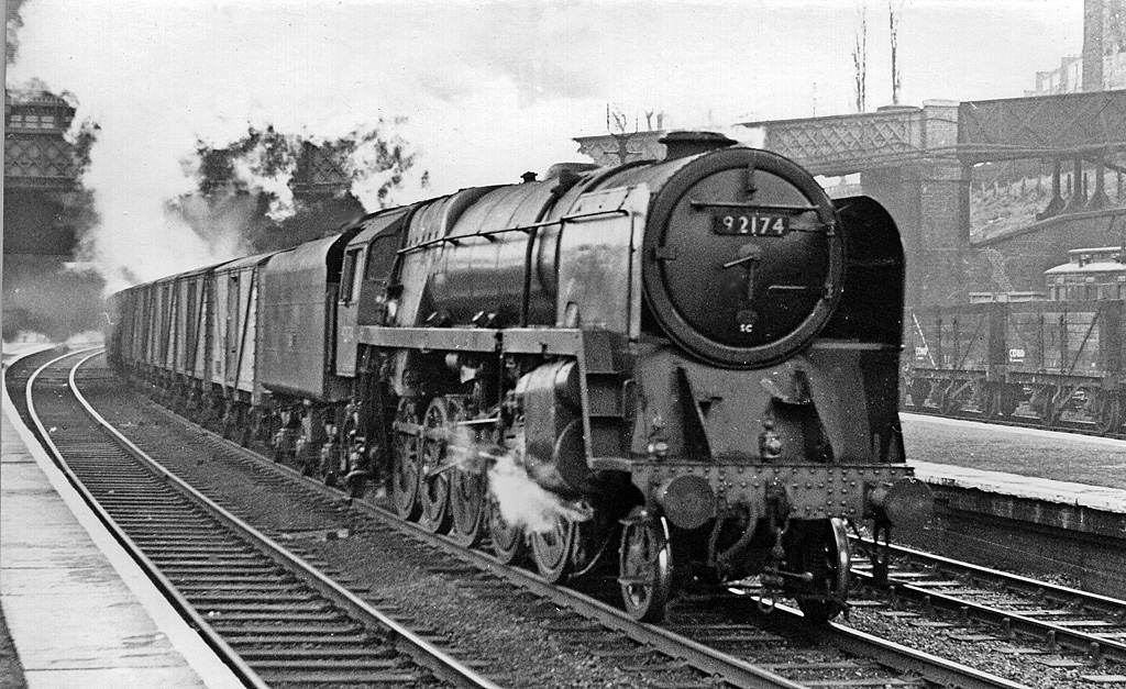 Down ECML 'Blue Spot' fish empties passing Harringay Station. View southwards, towards Finsbury Park and King's Cross. Before all the traffic was lost to road, an accelerated rail service for the fish traffic from Aberdeen, Hull, Grimsby etc. to London was provided by BR (Eastern Region) employing new vacuum-fitted insulated vans designated 'Blue Spot'. Here a train of empty vans is being being worked back northward on the Down Fast line through Harringay, forging ahead with BR Standard 9F 2-10-0 No. 92174.